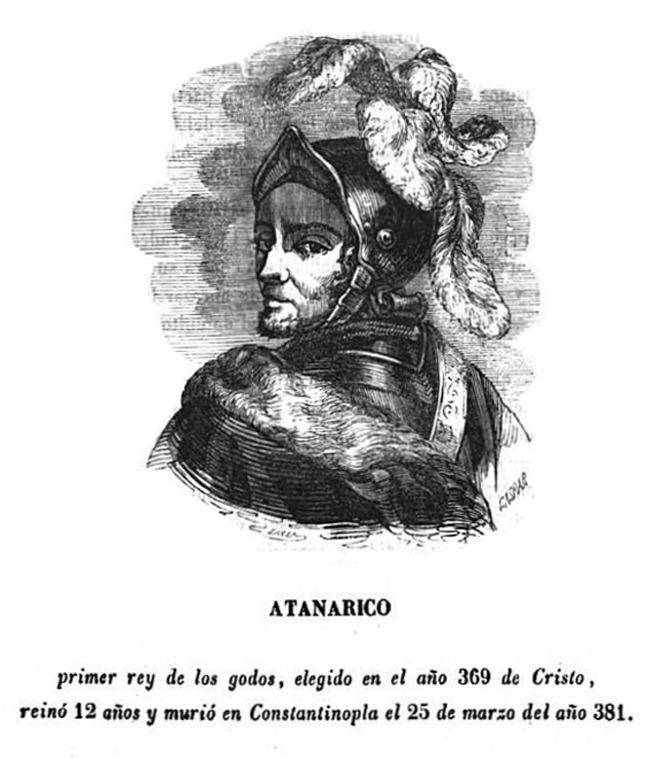 Drawing portrait of Visigoth king, printed into the book with N° 1 ATANARICO